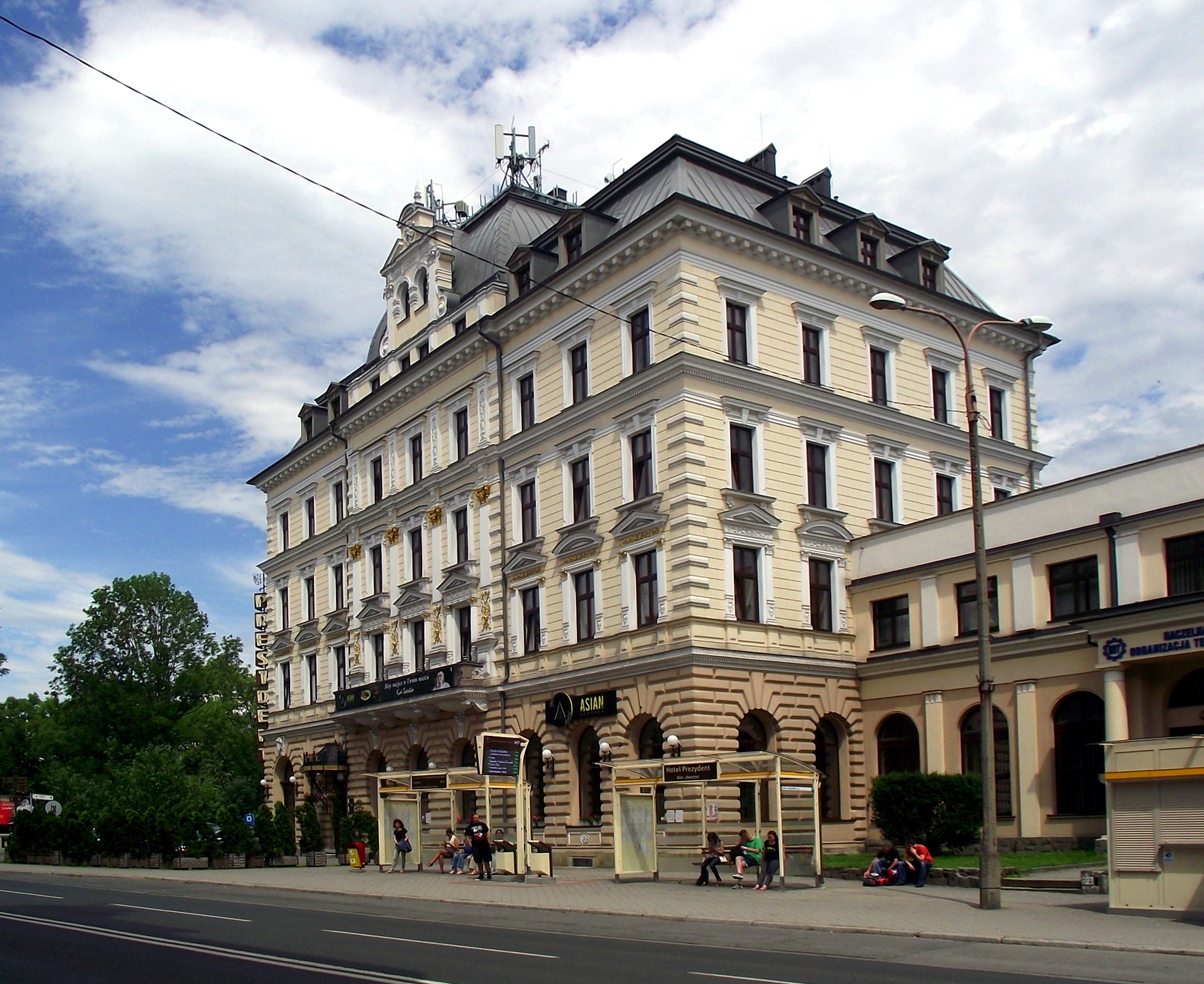 Hotel President in Bielsko-Biala (Poland)